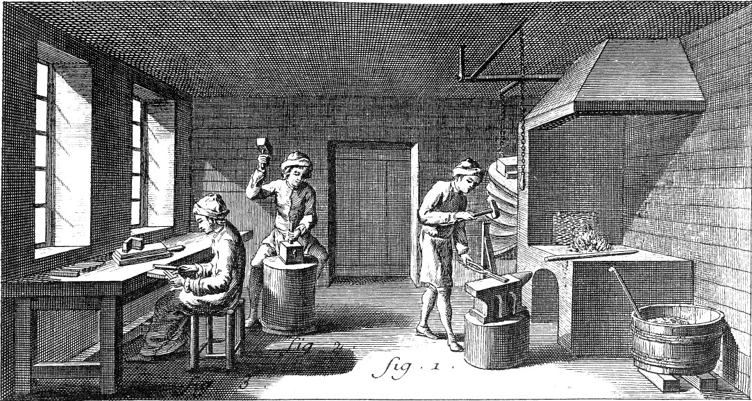 Forging and carving punches